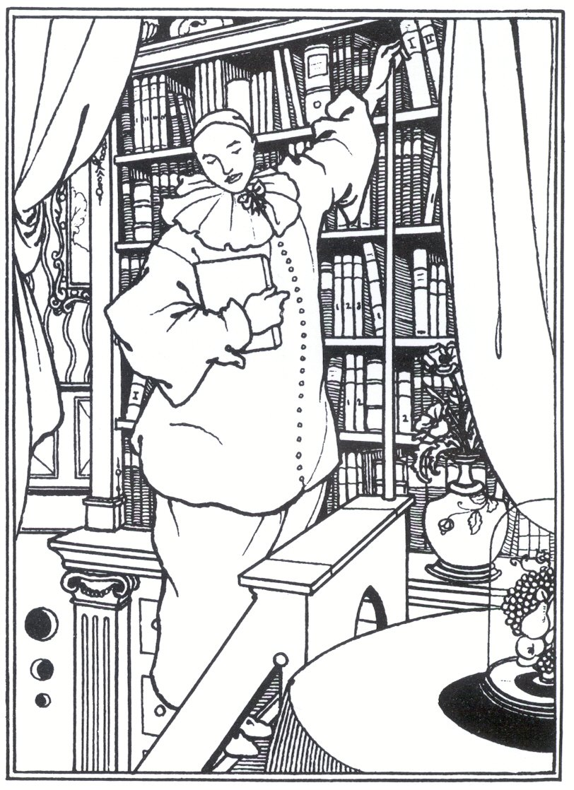 Design for front end papers of book in "Pierrot's Library" series, 1896